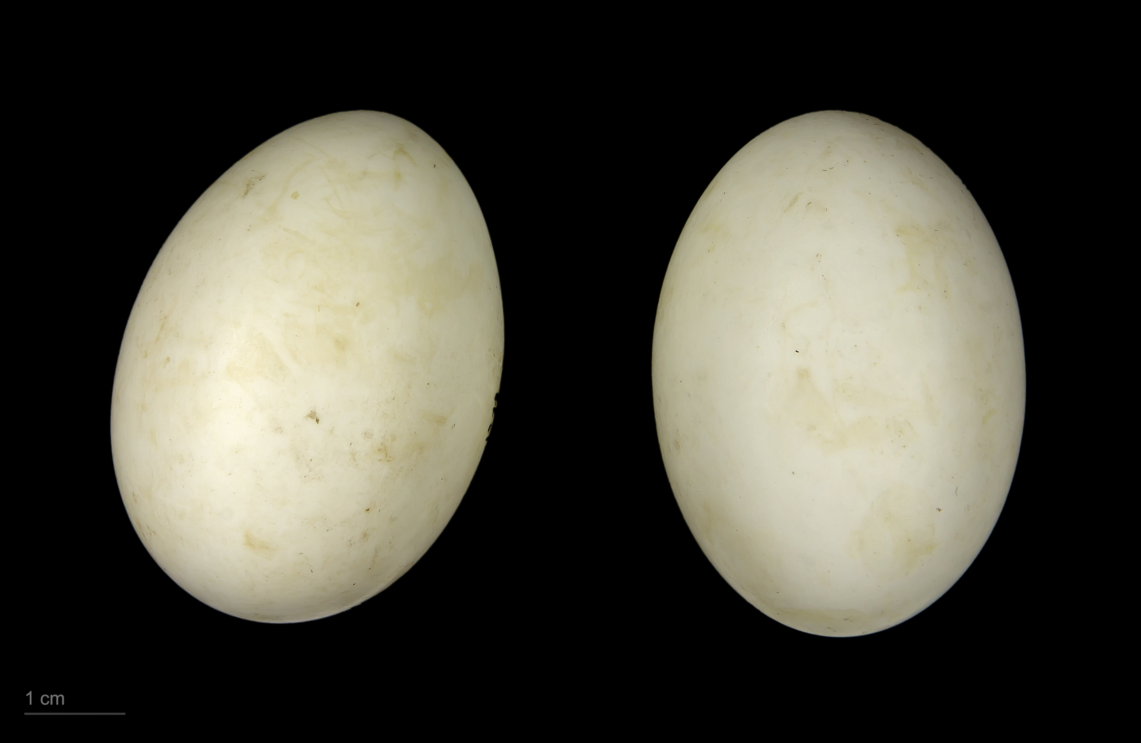 Egg of ringed teal Collection of Jacques Perrin de Brichambaut.